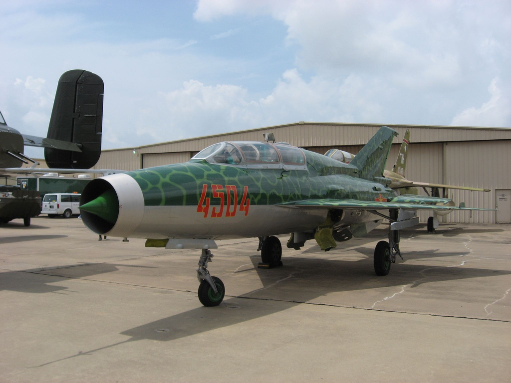 Mikoyan Gurevich MiG-21US displayed at the Cavanaugh Flight Museum, TX.